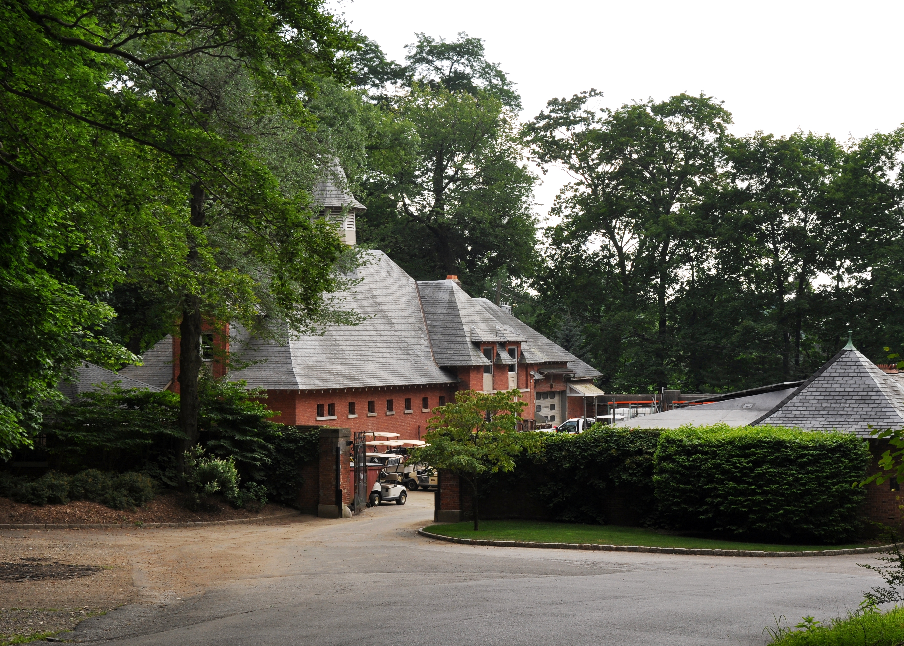 Sleepy Hollow Country Club; taken July 27, 2014.